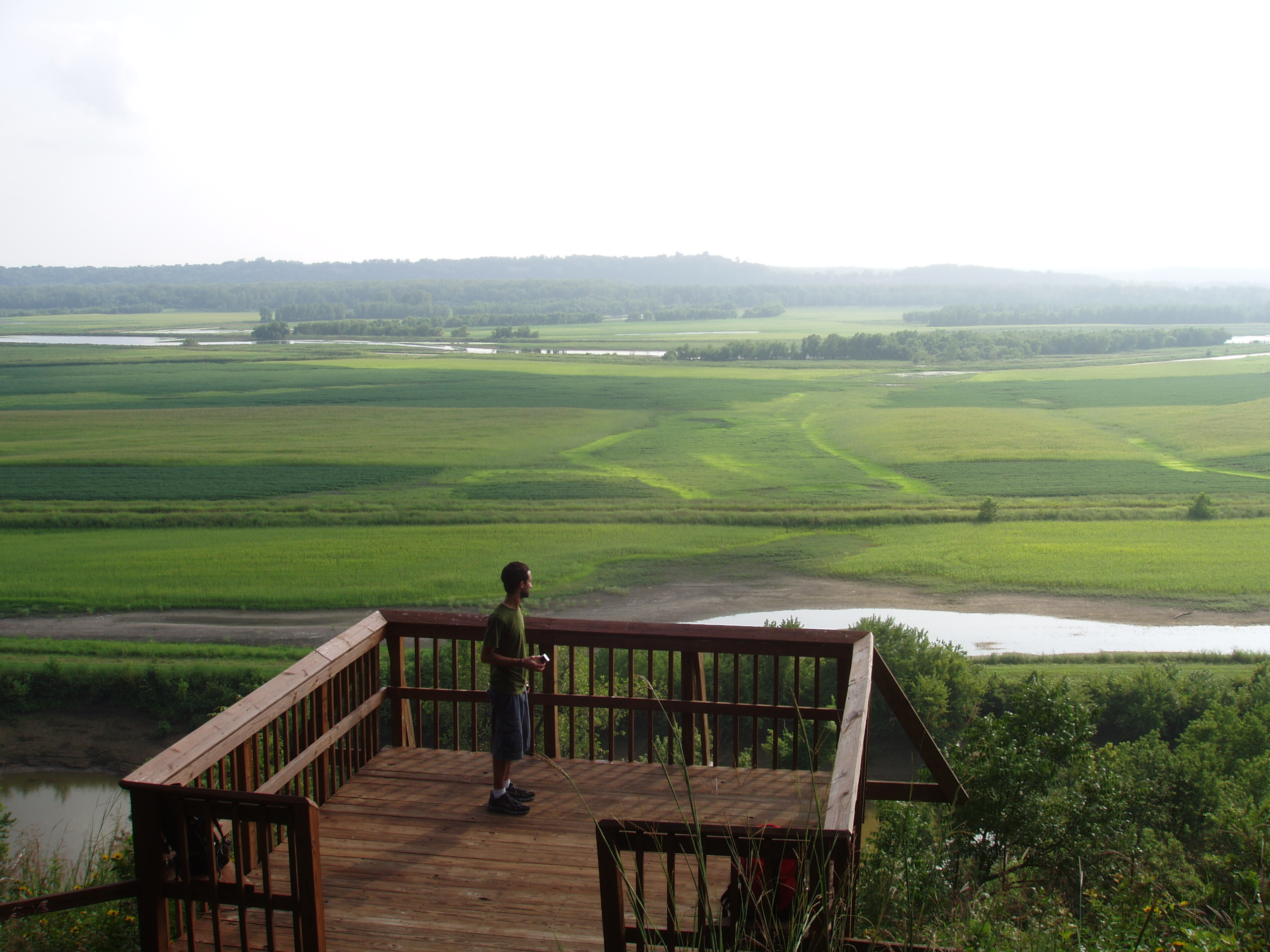 Eagle Bluffs Conservation (I wish my camera had panoramic mode)